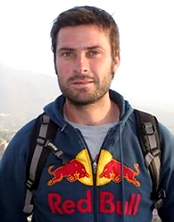 Francisco "Chaleco" López, chilean motorcycle and rally racer.